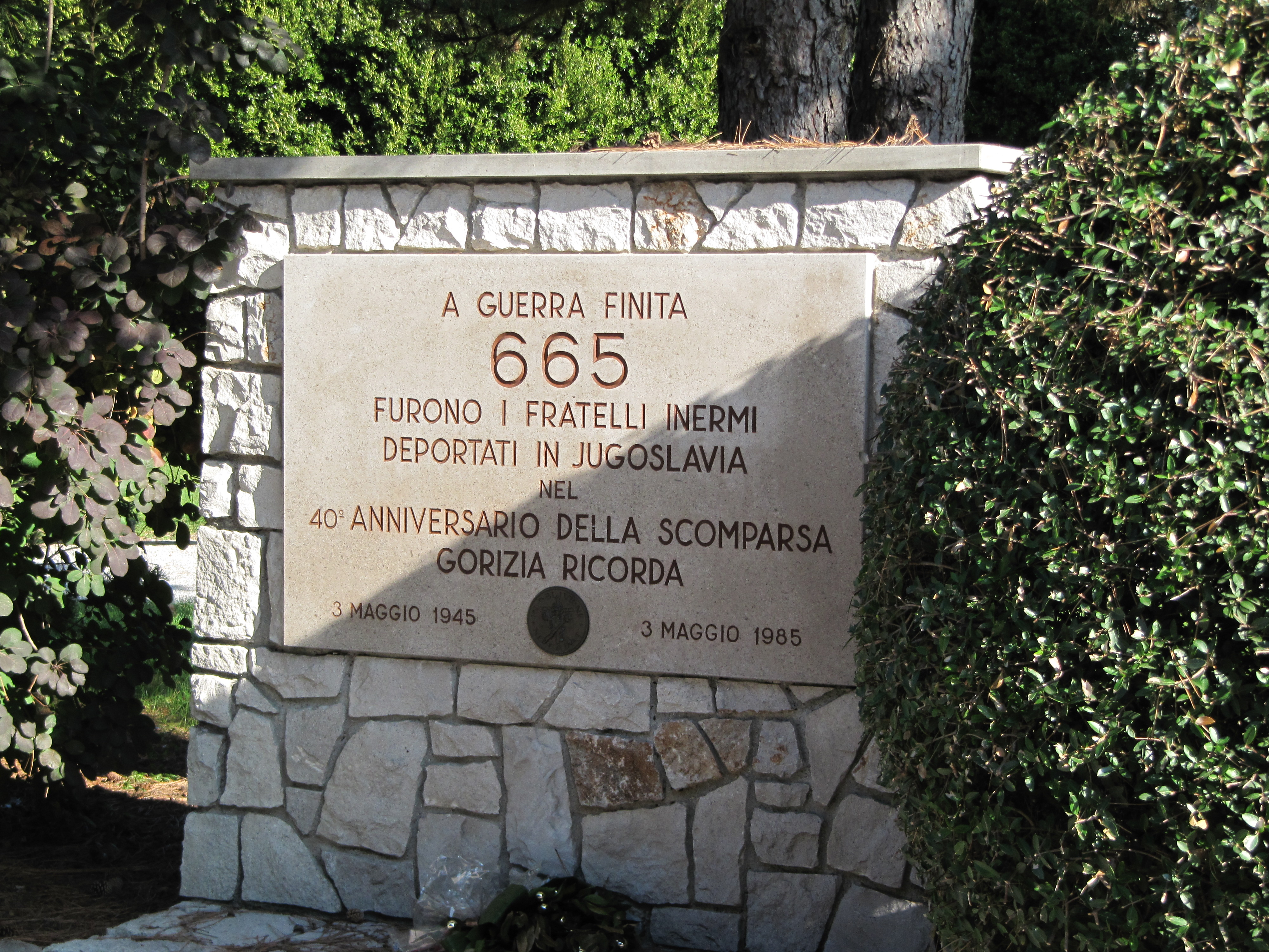 deported memorial, Gorizia, Italy